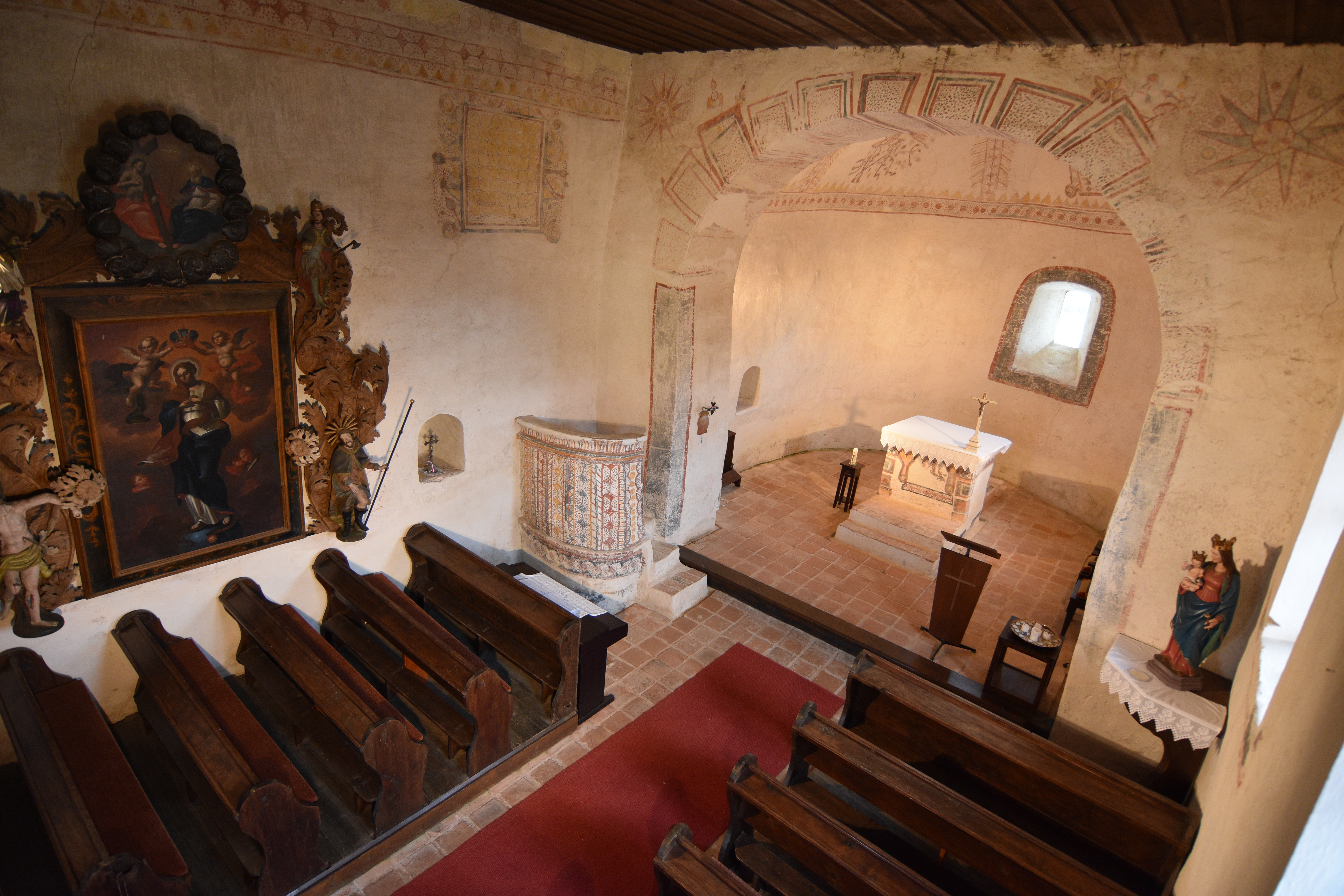 Saint Ladislaus Church, Siget in der Wart - Interior